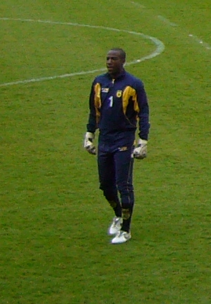 This is the french soccer goalkeeper Guy Rolland N'Dy Assemb before a French fourth division national championship game between Rodez and the FC Nantes II.